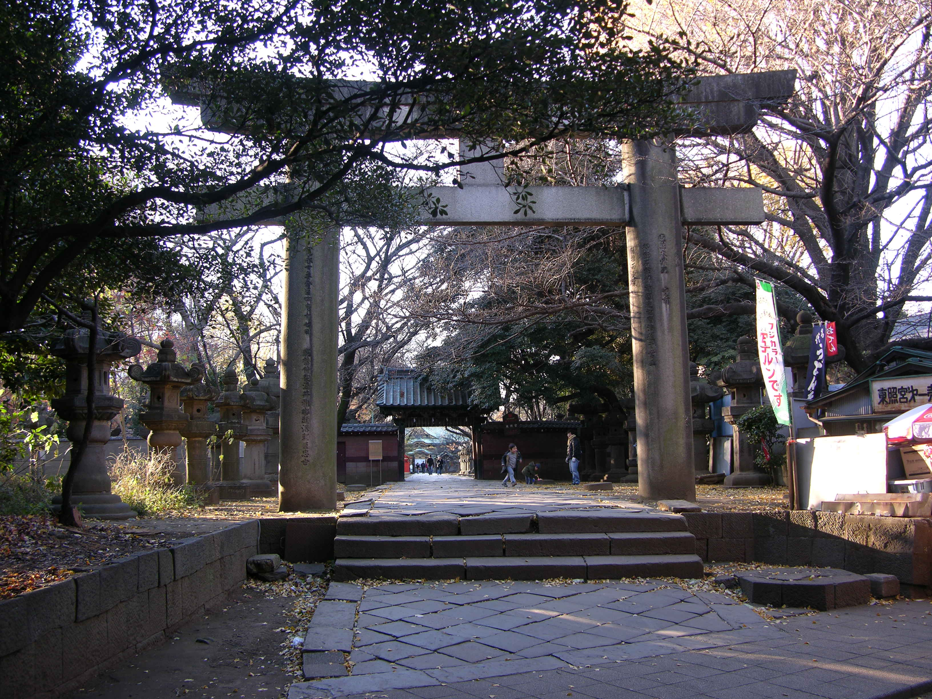 Gate at Ueno Park. Tokyo, Japan. Author: Sergio Perez, December 2005. Nikon coolpix 8 MPixel.